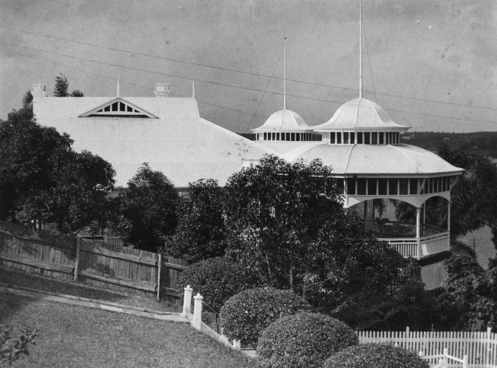 Side view of the distinctive, pavilion verandahs of the residence, Cremorne, Brisbane, ca. 1935 The house is an example of Queensland Federation-style architecture, with its generous verandahs and distinctive rotundas topped with cupolas. The site of Cremorne is built to take full advantage of Brisbane River views.